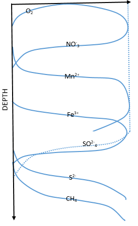 Major electron acceptors in marine sediments based on idealized depth in marine sediments.